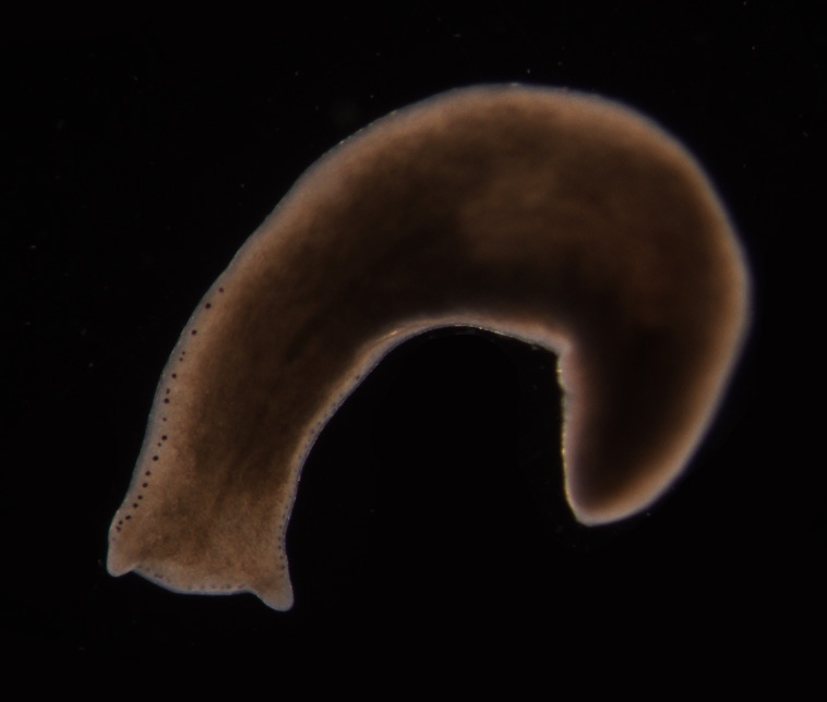 Polycelis felina from Catalonia.